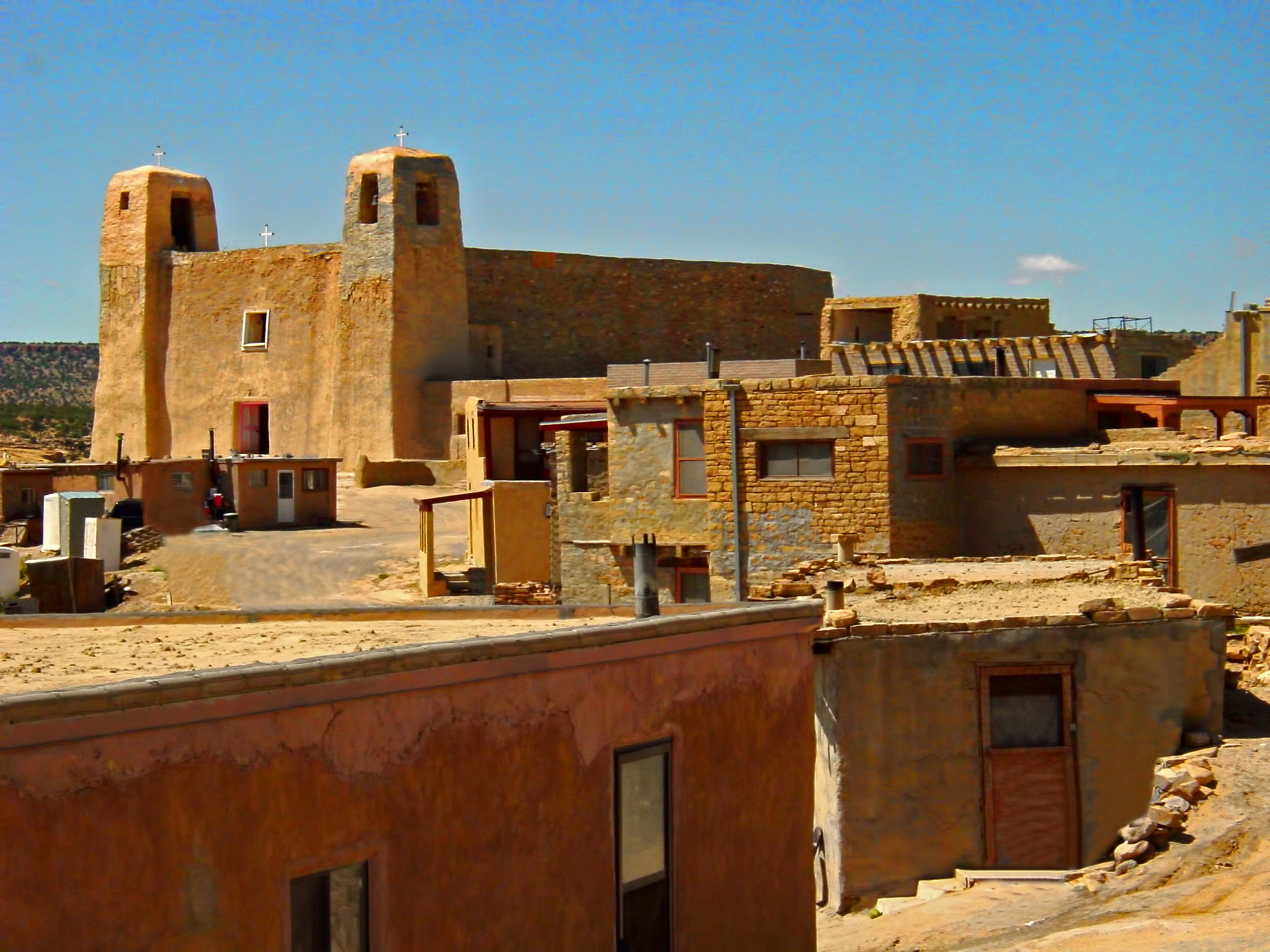 Acoma